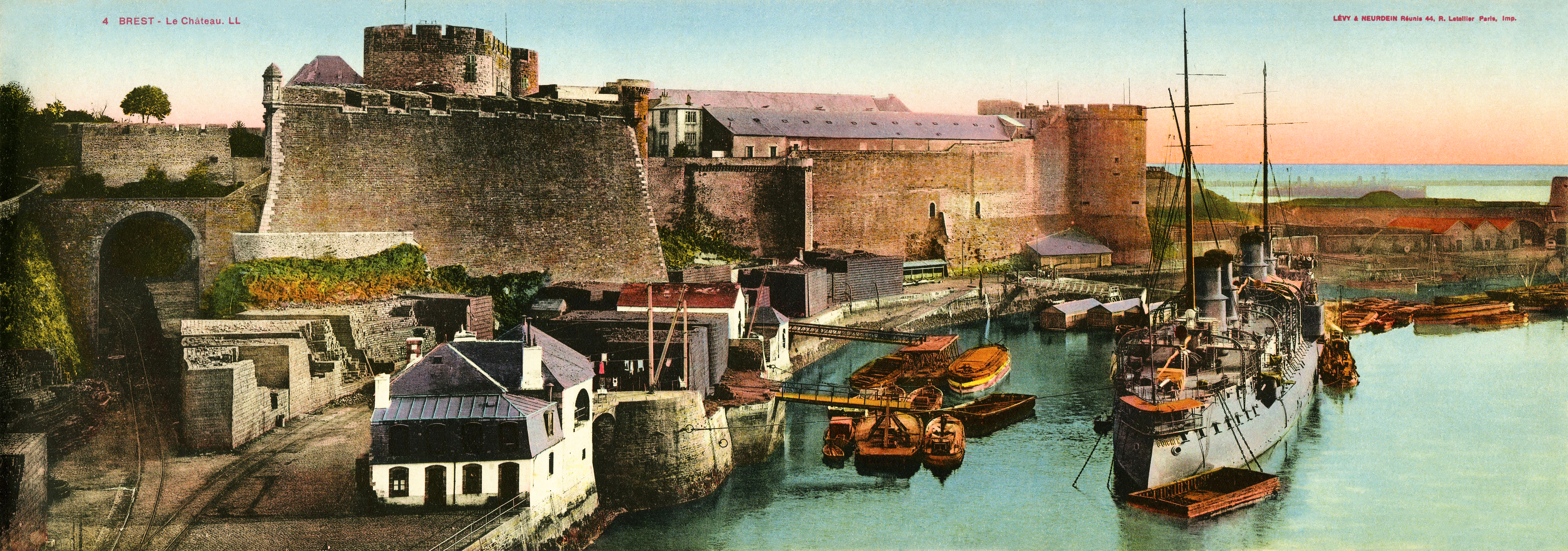 Colored postcard showing château de Brest. The photograph is taken in Brest from the edge of the National Bridge over the Penfeld. In the foreground we see the cruiser Guichen anchored.